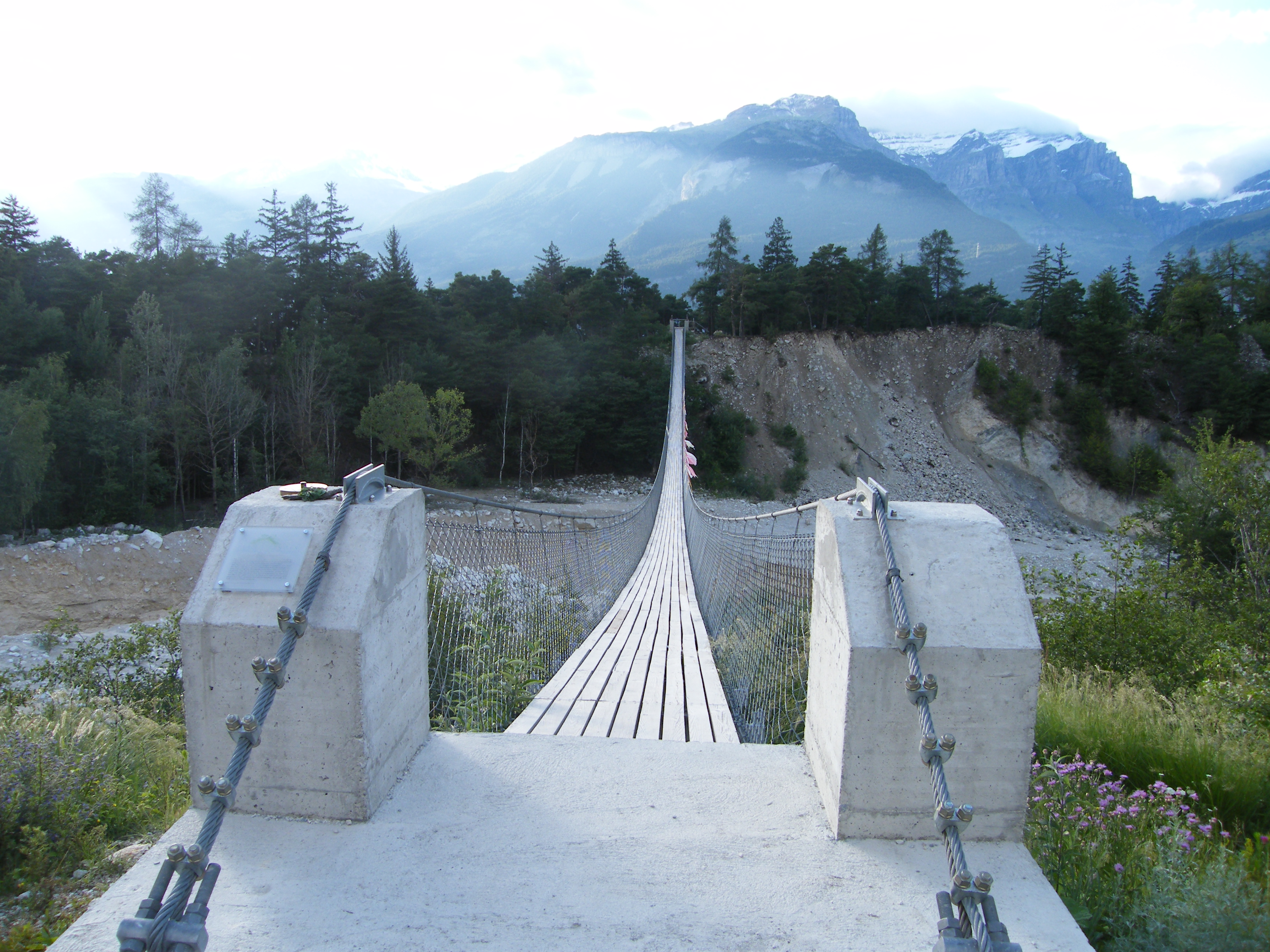 It was a surprising to find this bridge in a Swiss river valley. Complete with prayer flags and a traditional Chorten the 134-metre long Bhutan Bridge crosses the Illgraben. The hanging walkway that connects the Lower and Upper Valais symbolises the bridging of a cultural divide. Little water flows during dry weather but judging by the massive scoured out valley below, vast amounts of water flow in the wet and during the spring thaws.